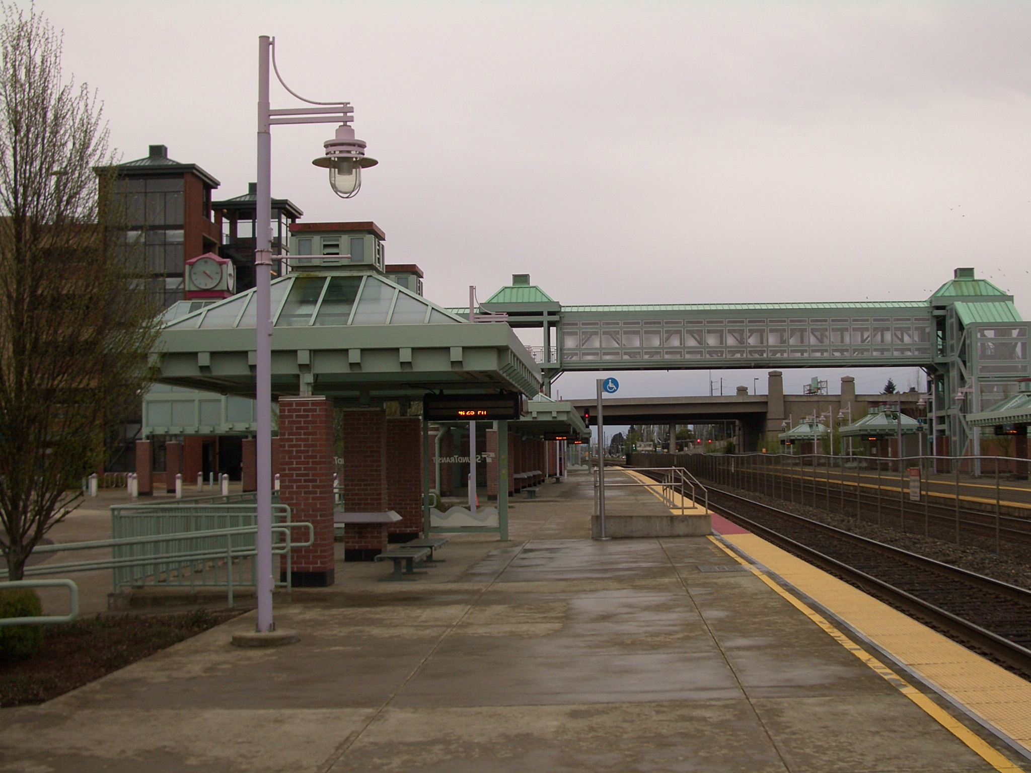 Sounder train station in Auburn, WA.